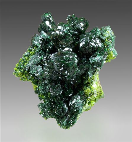 Olivenite, Gartrellite Locality: Tsumeb Mine (Tsumcorp Mine), Tsumeb, Otjikoto (Oshikoto) Region, Namibia (Locality at ) This remarkable specimenis widely regarded as the best Tsumeb olivenite specimen and perhaps world's best of species, by many who have seen it in person. It is brilliantly lustrous, and pristine, and consists of huge clusters of intergrown crystals to several cm in size erupting from a light green matrix of solid Gartrellite (making this also an uncommonly rich Gartrellite specimen as a bonus). The crystals have a deep green color that comes out easily with even minimal lighting, and it just glows in person in a way not quite reflected in the picture (though I could certainly not do better, mind you, than John did!) 10 x 7 x 5 cm